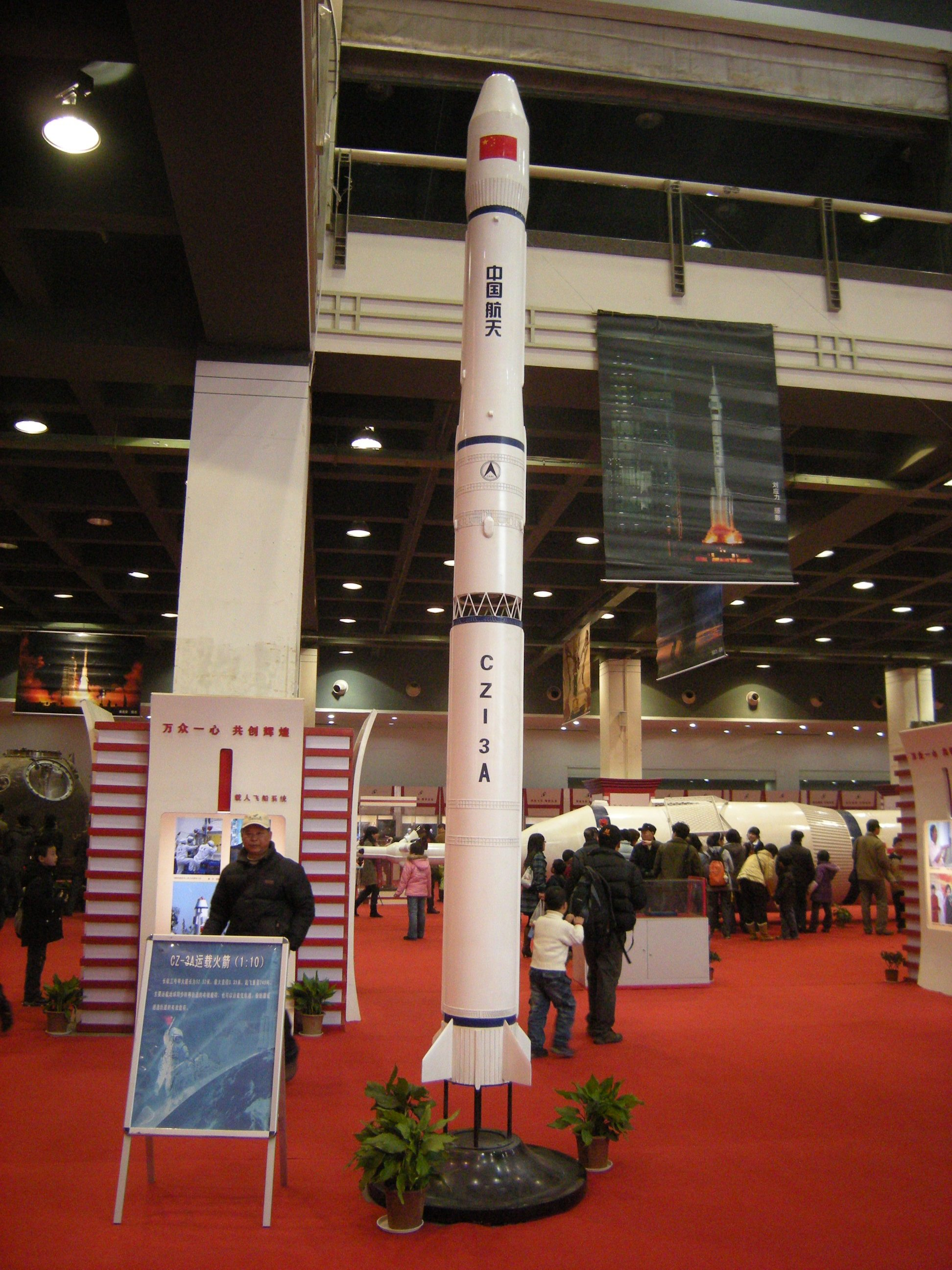 CZ-3A_launch_vehicle_model